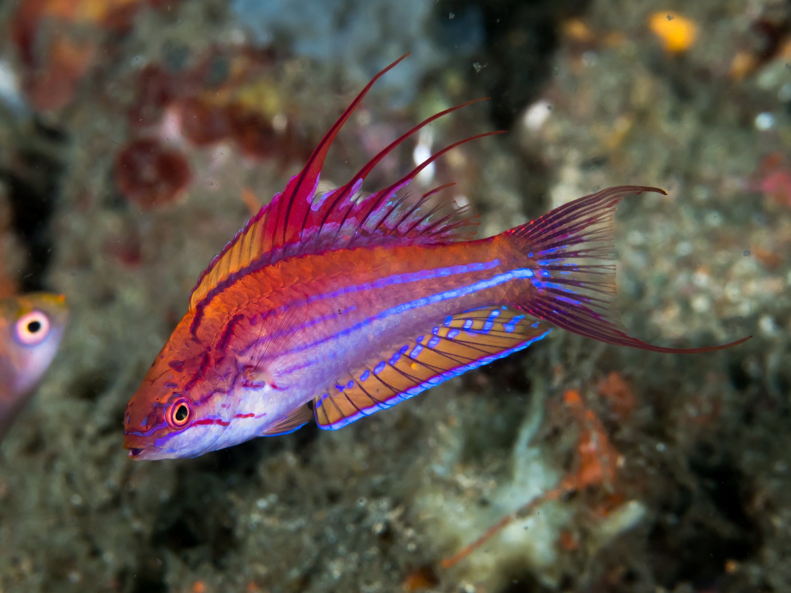 Lembeh, Indonesia - Paine's flasher wrasse (Paracheilinus paineorum)